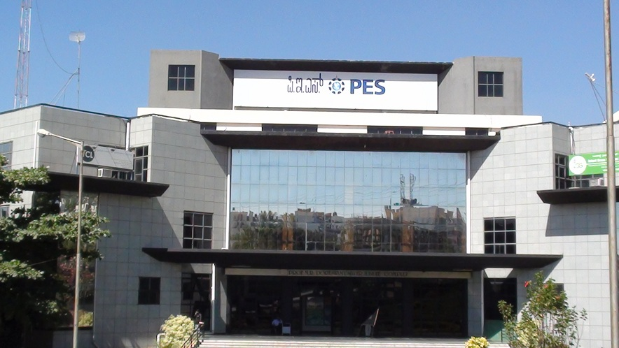 photo of PESIT, bangalore